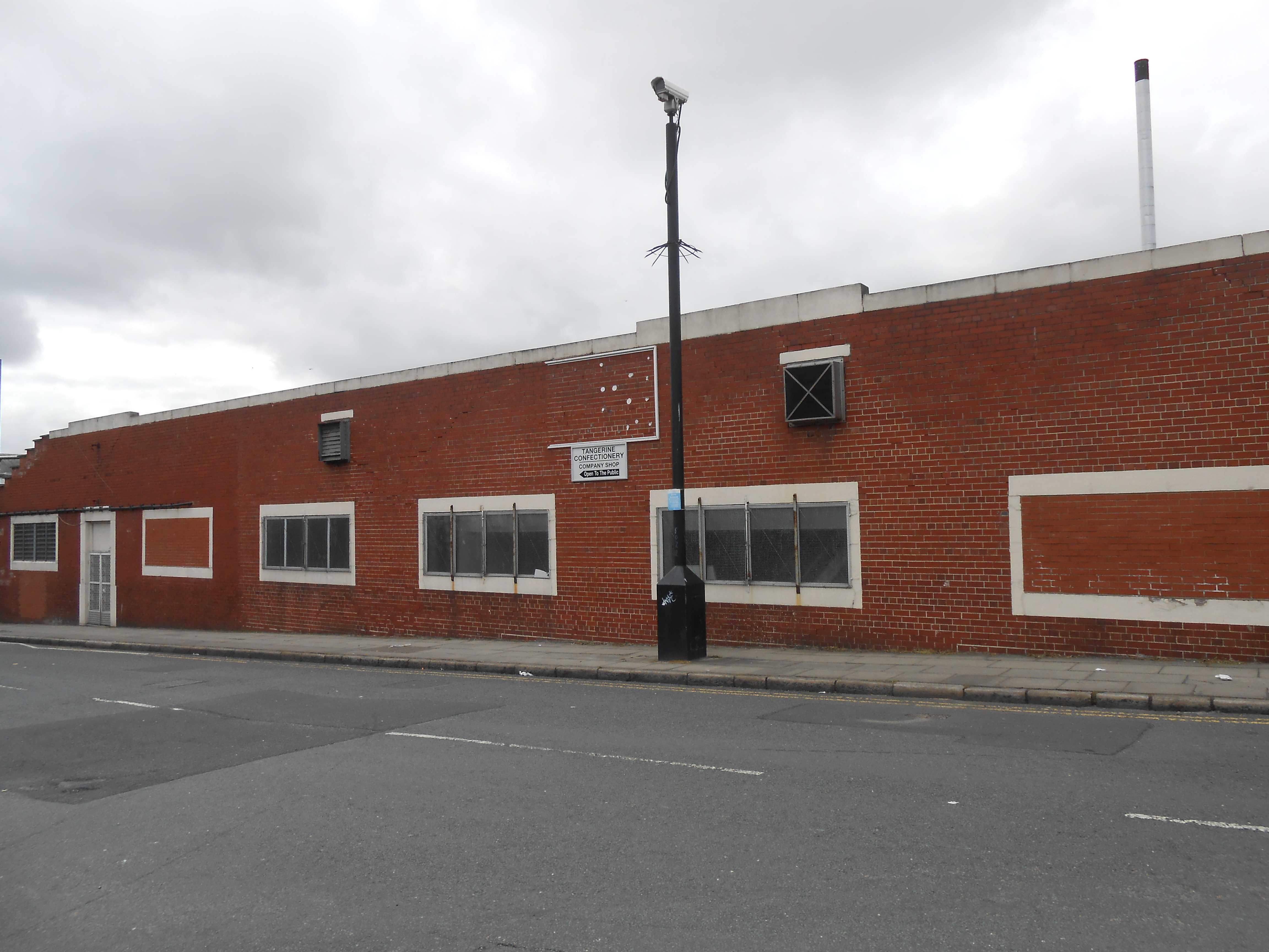 Tangerine Confectionery, Beech Street, Kensington, Liverpool, England.